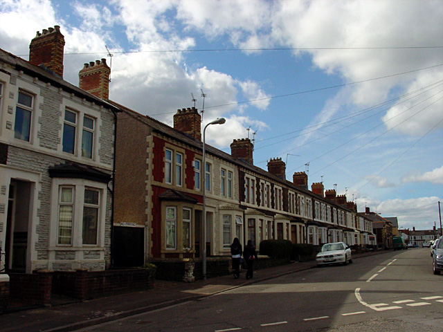 Wilson Street, Splott The terrace housing in this road is typical of this area. Looking towards the north-west.